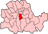 Map of the Metropolitan borough of Southwark, former County of London.